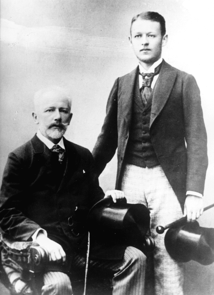 Tchaikovsky and his nephew Vladimir Davydov in Paris, June 1892.